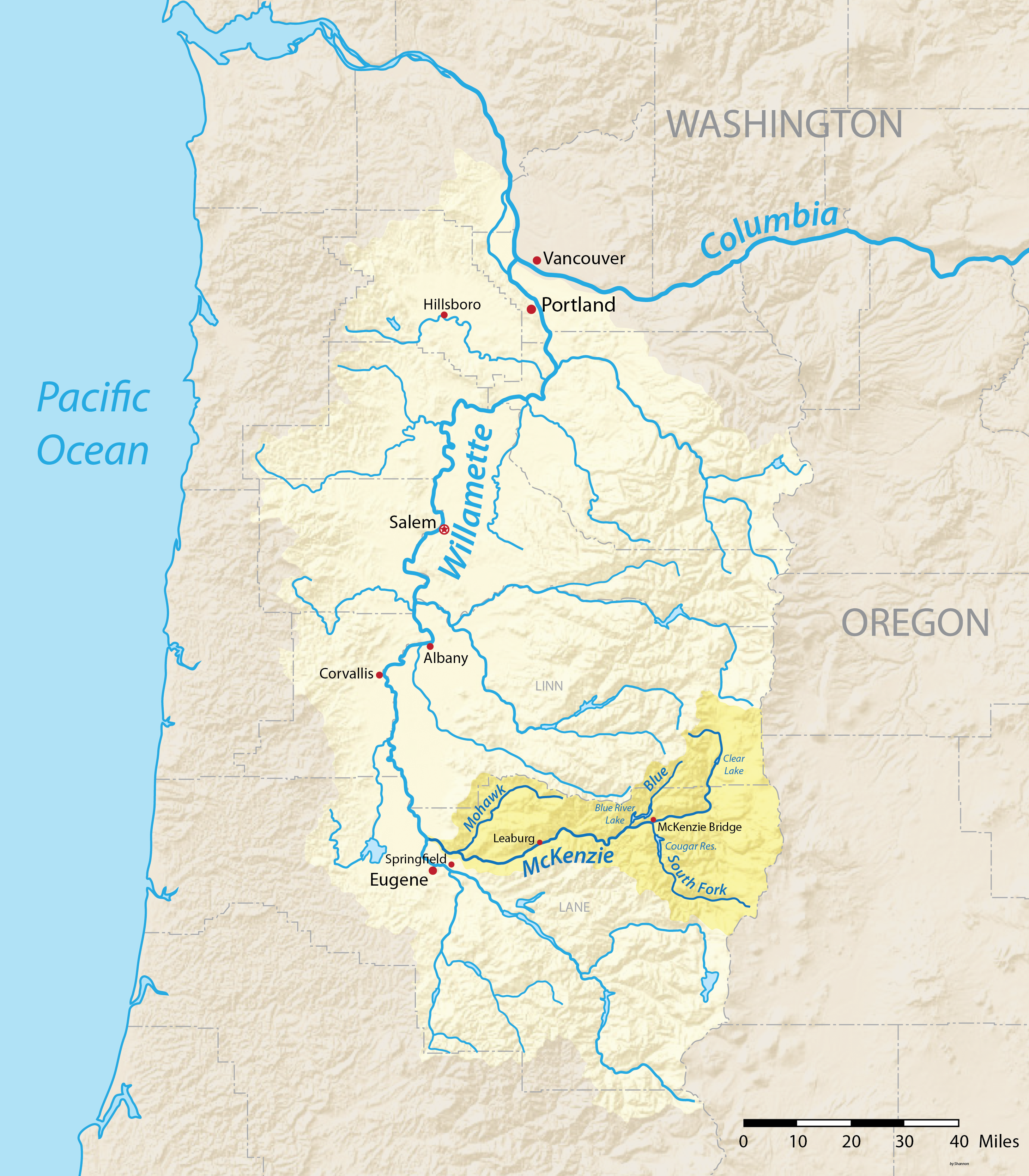 Map of the Willamette River basin in Oregon, USA – with the McKenzie River tributary highlighted. Made using USGS National Map data.